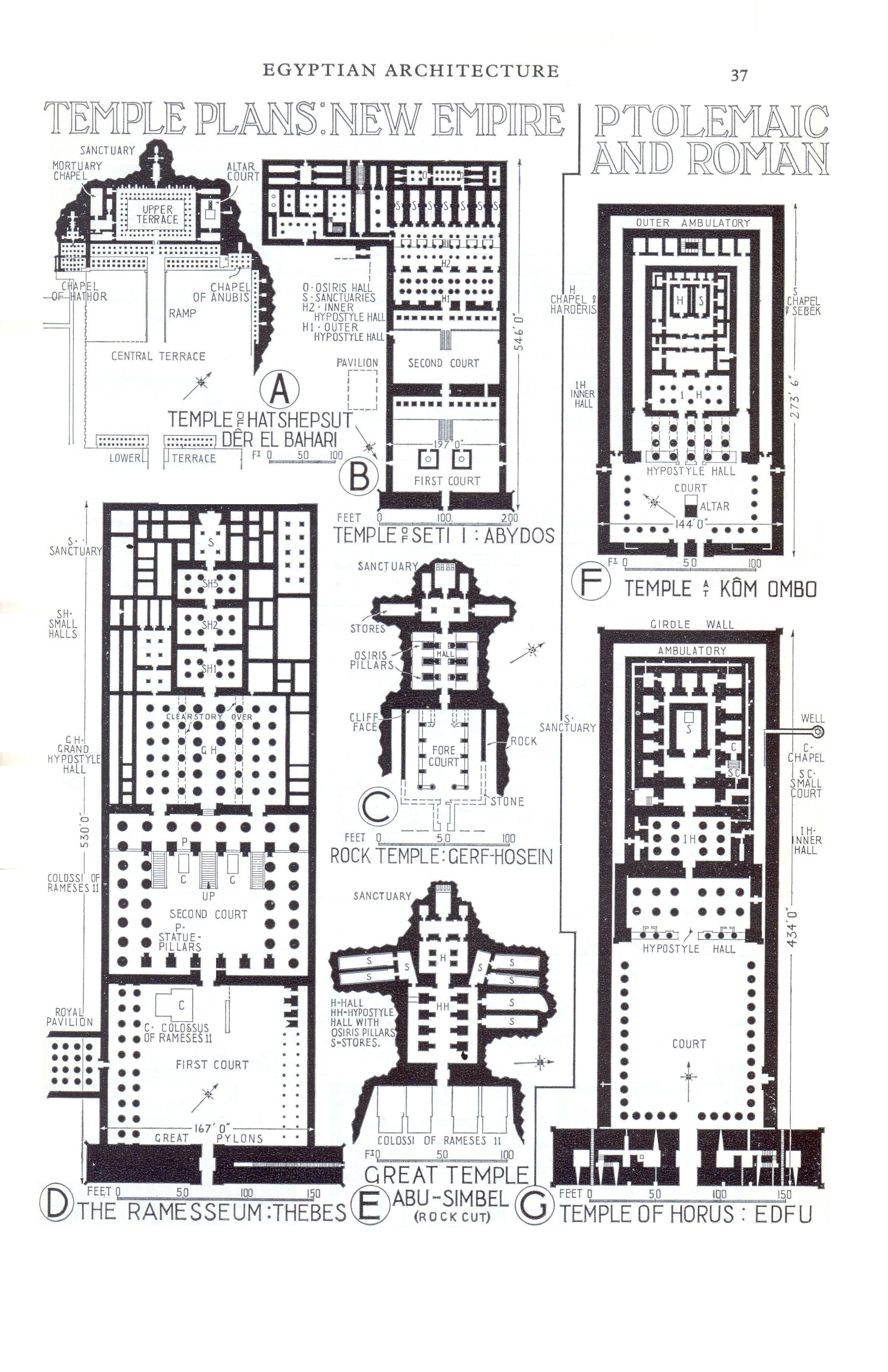 Temple Plans - New Empire - Ptolemaic and Roman , Egyptian Architecture, History of Architecture (Fletcher pg 37